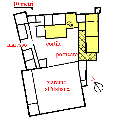 Plan of Issogne castle in Aosta Valley